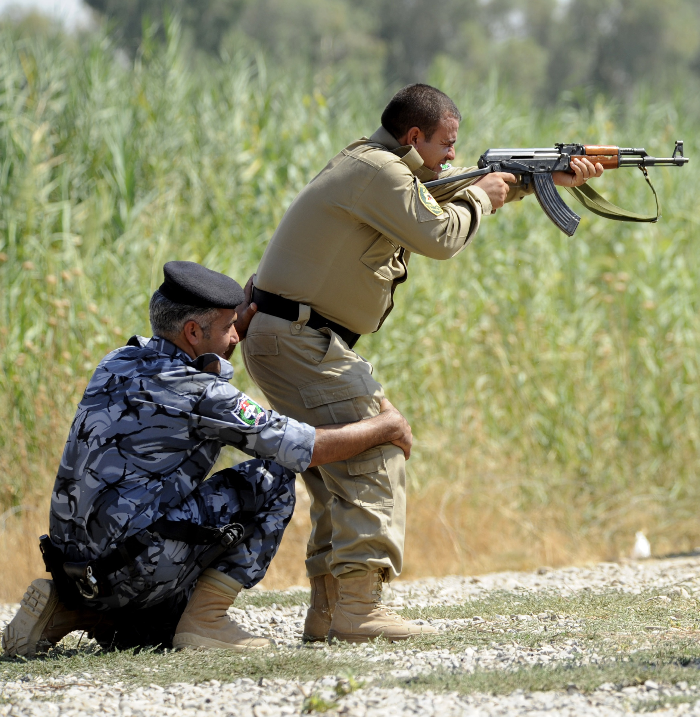 Iraqi range instructor helps an Iraqi federal police officer hold his stance while firing an AK-47 assault rifle during a weapons training class Sept. 9, 2009, at an Iraqi police compound in Wadi Hajar, Mosul, Iraq.